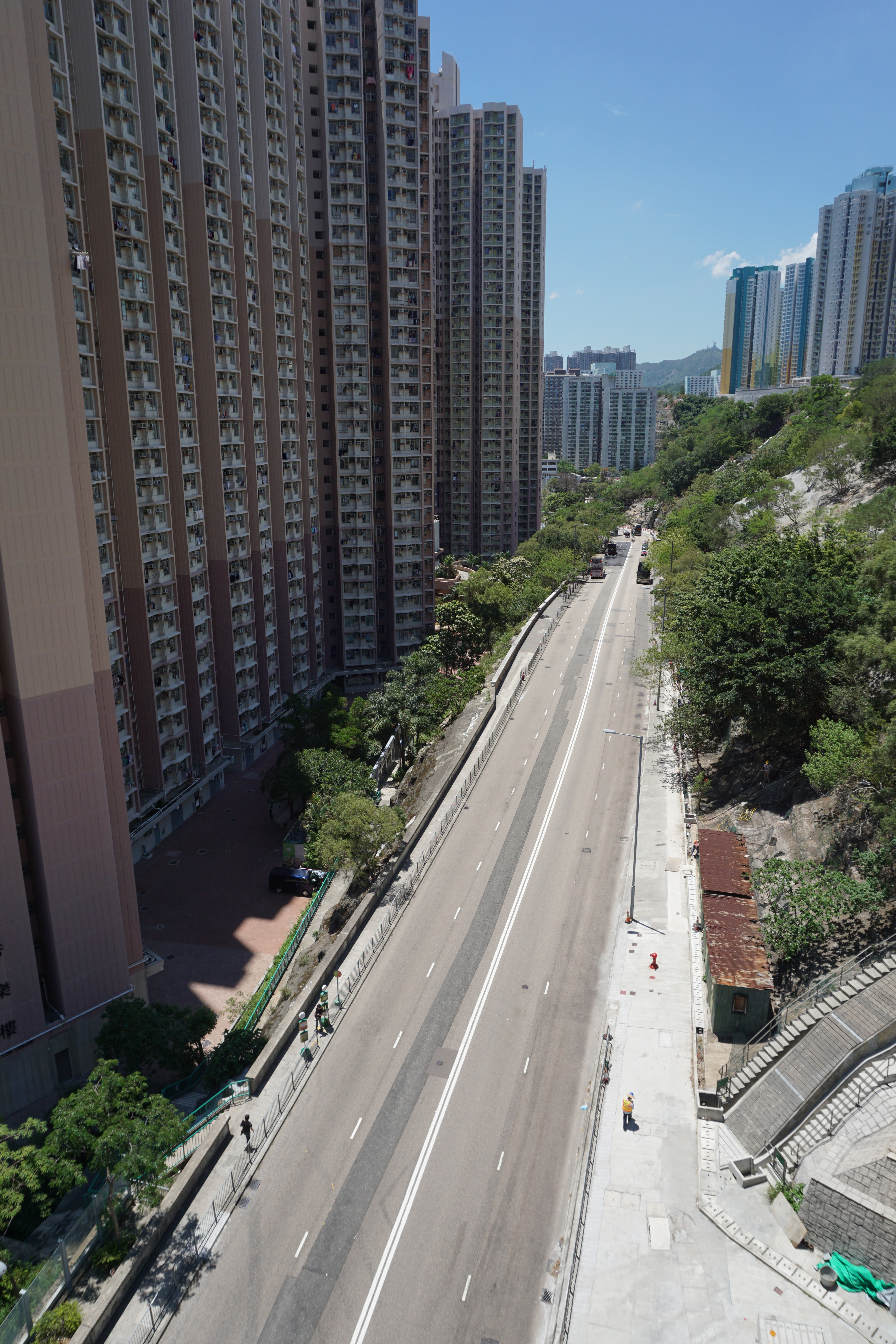 Sau Mau Ping Road in Sau Mau Ping, Hong Kong.